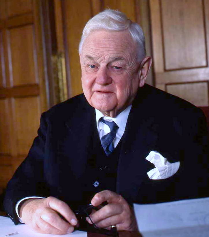 portrait of Lord Hailsham